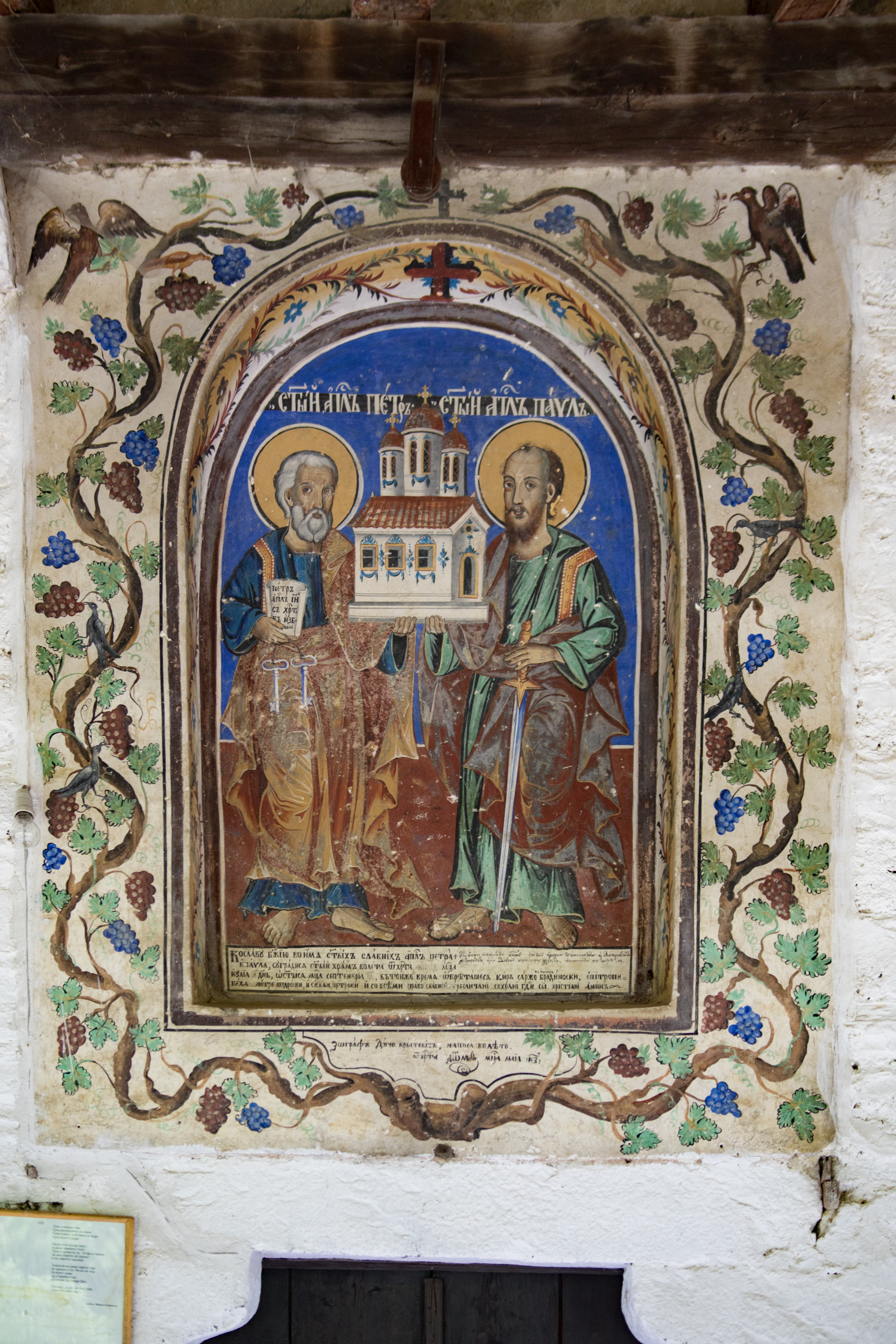 Fresco over entry door of the Sts. Peter and Paul Church in the village Tresonče